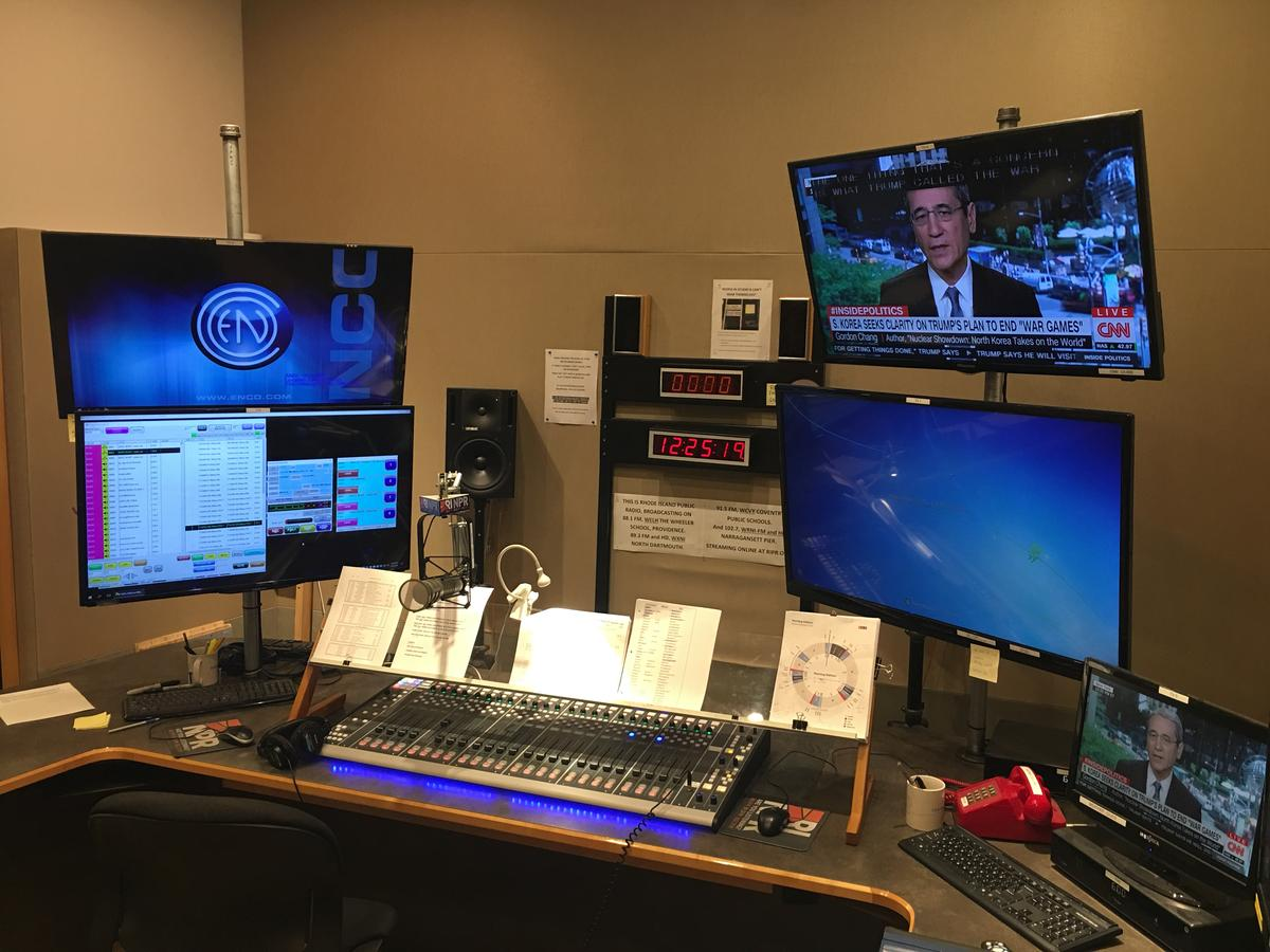 Pic of The Public's Radio's Studio A, showing the mix board and Enco automation/live-assist system.